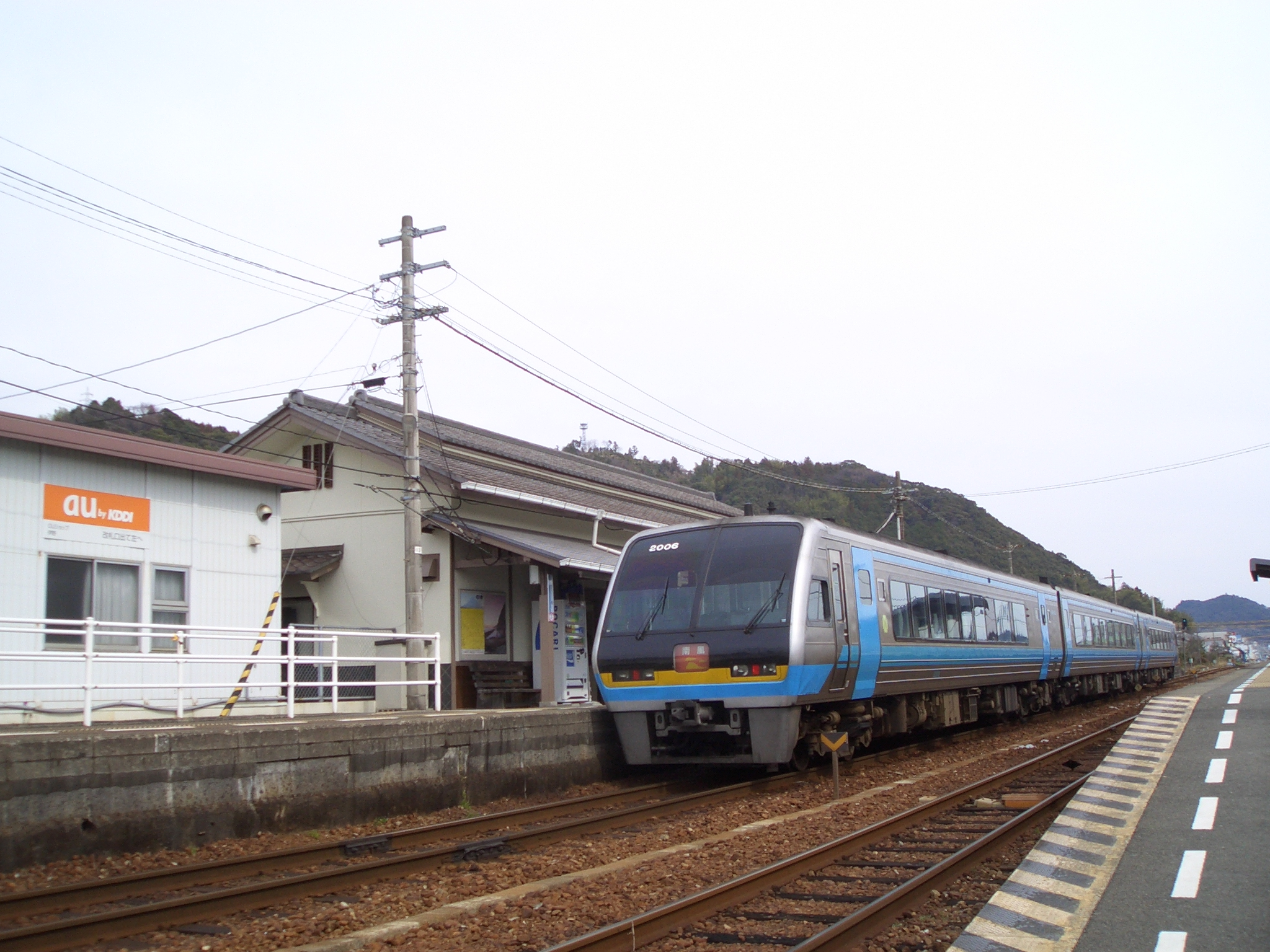 Limited Express train Nanpu stopping at Ino Station